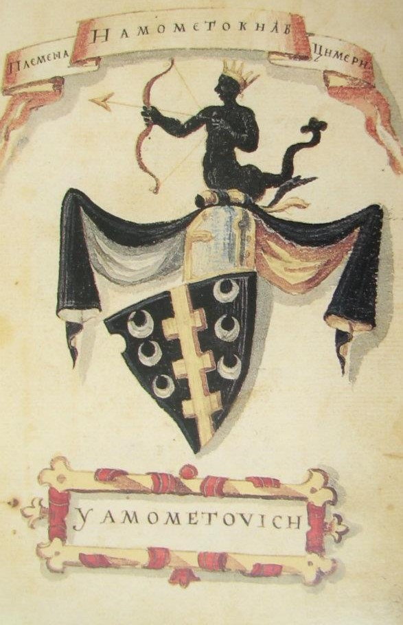 Image of Jamomet(-ović) noble family coat of arms.